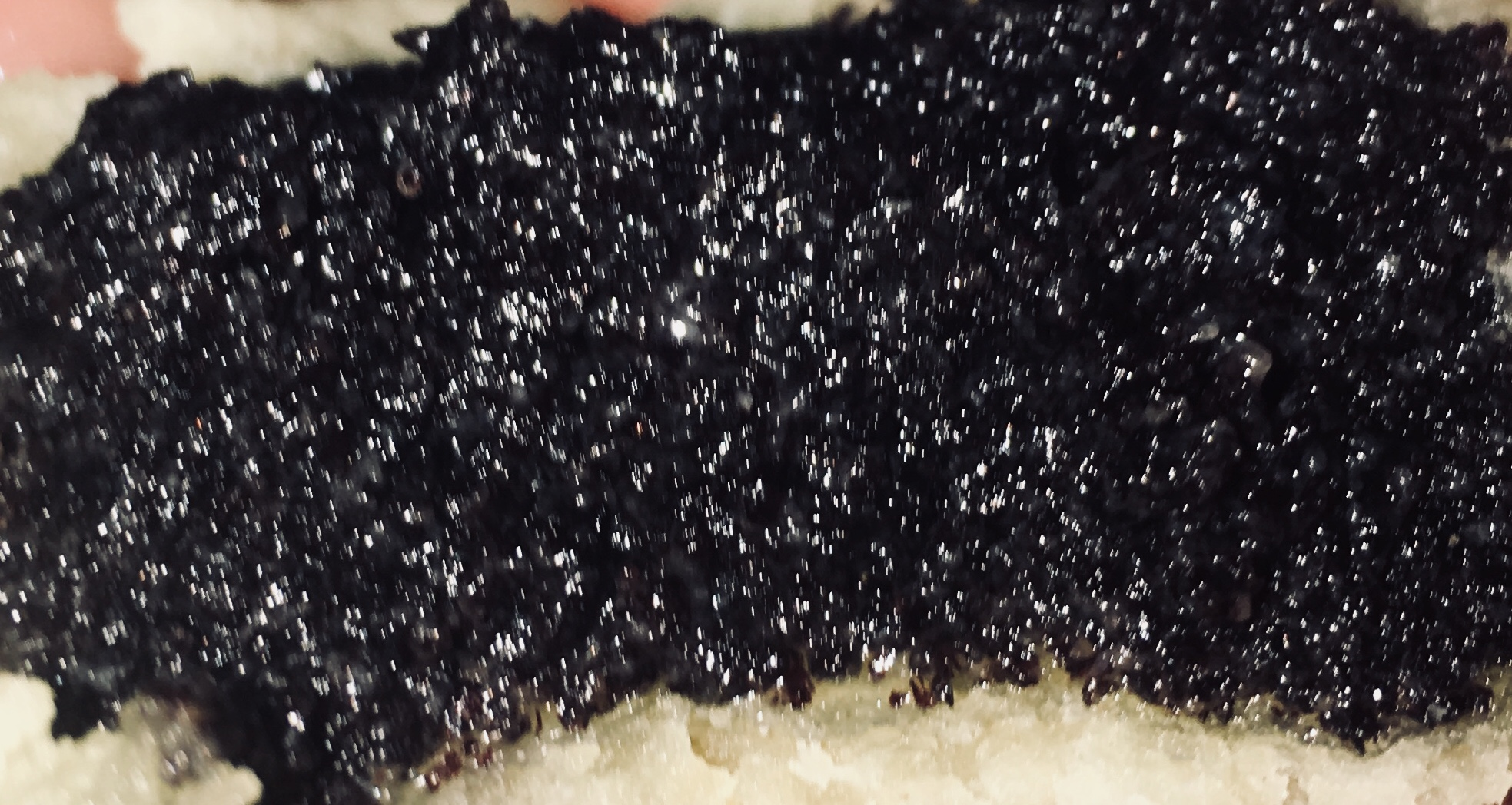 A photo of the mohn (poppyseed) filling I made in my hamantaschen.